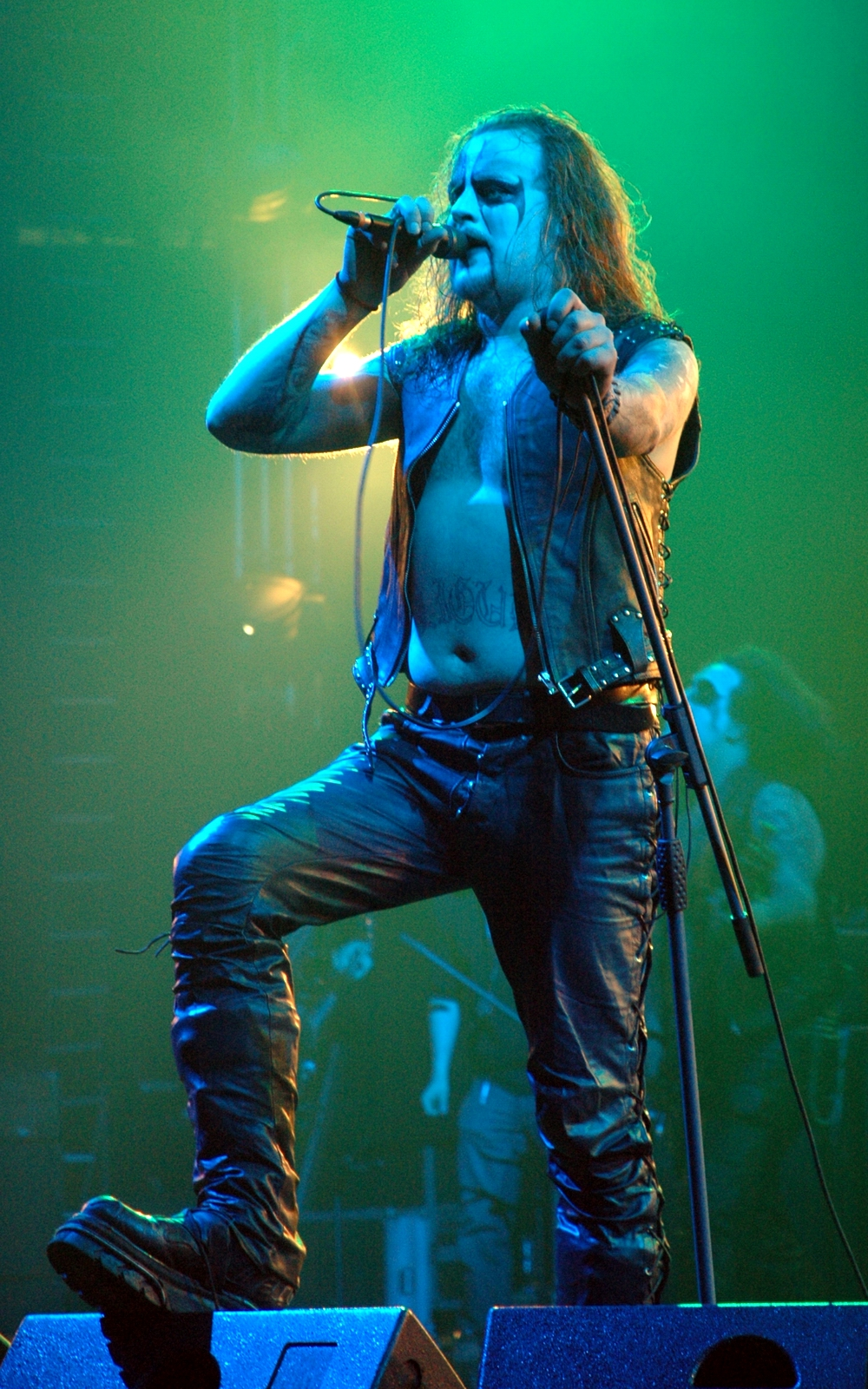 Masse "Emperor Magus Caligula" Broberg from Dark Funeral at Metalmania Festival 2005 in Poland